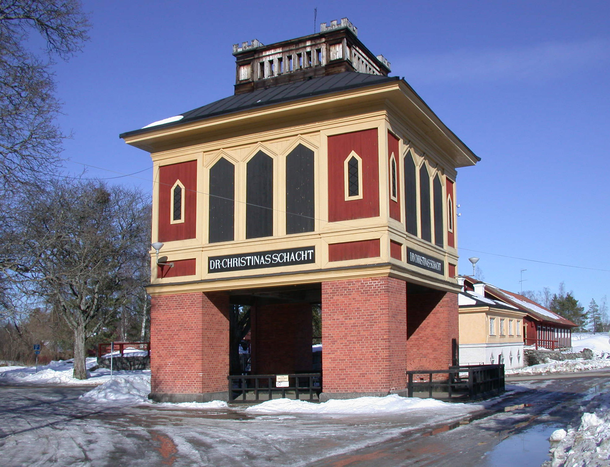 The shaft of Her Majesty Queen Christina, Sala silver mine, Sala, Sweden.